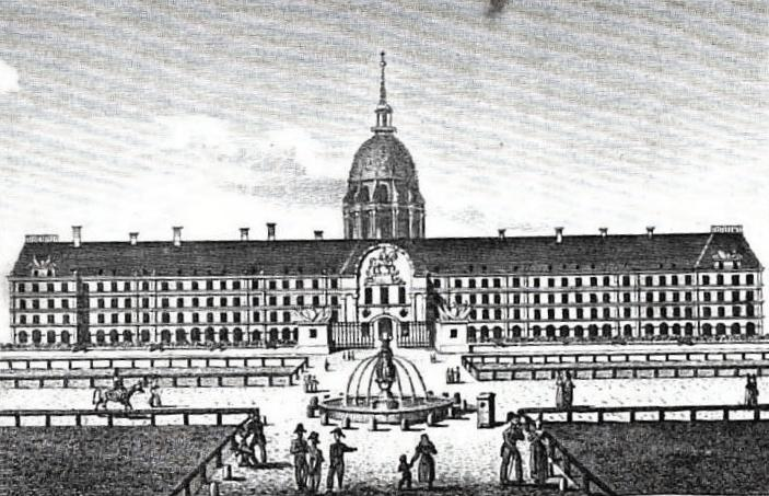 "Hospital of the Invalides"